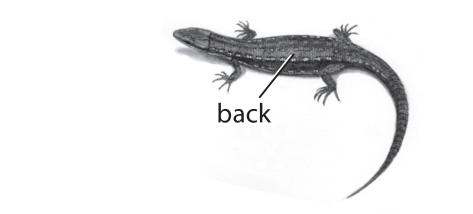 Standard Event System character depiction